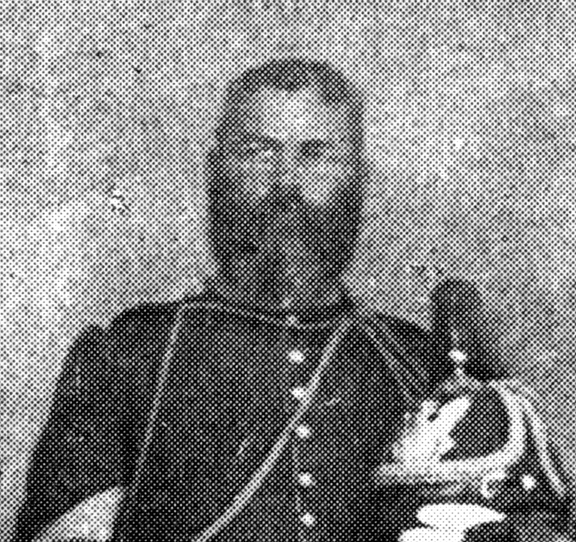 Photograph taken at Fort Robinson, Nebraska, of Sergeant Thomas Shaw, K Troop, 9th Cavalry Regiment, United States Army.